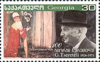 Stamps of Georgia, 2004